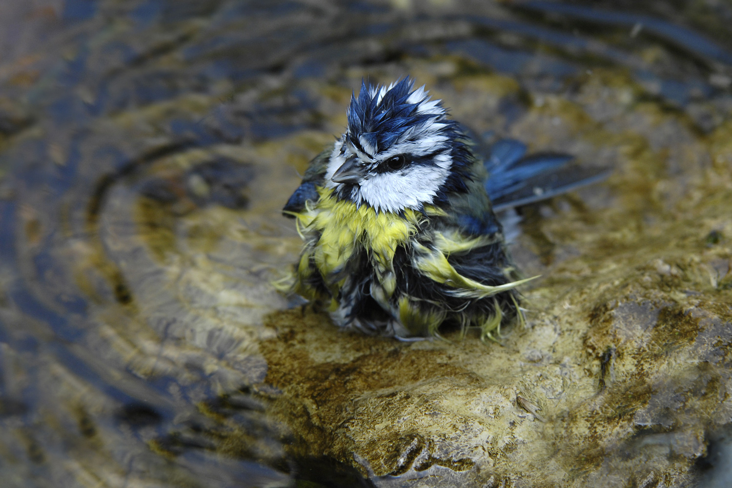 Blue tit bathing